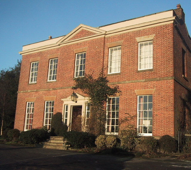 Rivington Hall. This building is just round the corner from the top barn, and looks absolutely superb in the sunshine.